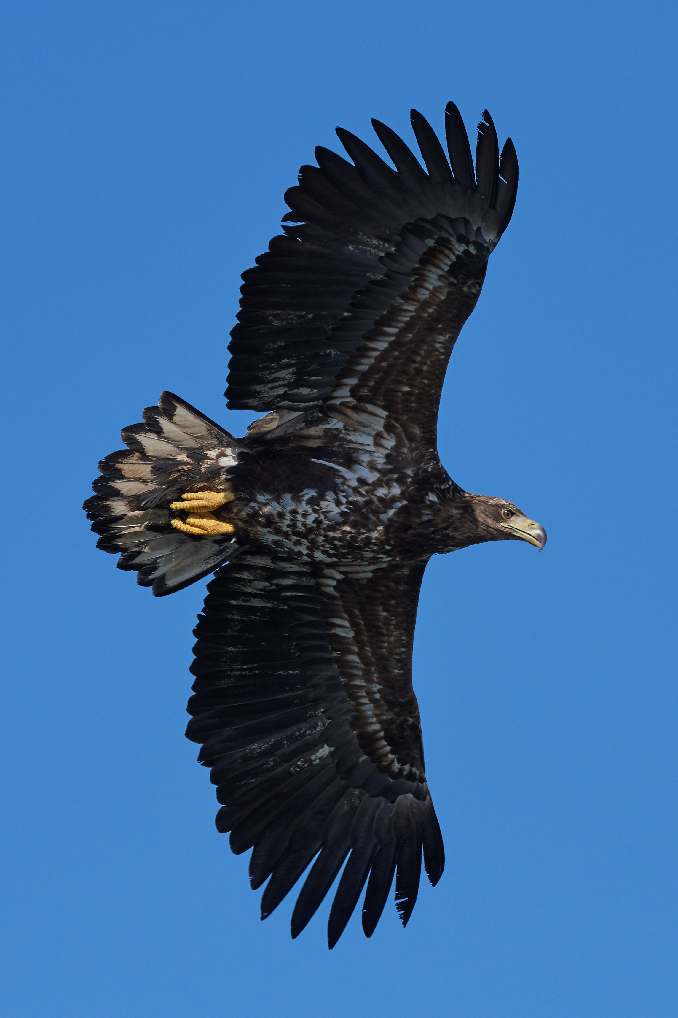 Juvenile White-tailed eagle (Haliaeetus albicilla), Raftsund, Lofoten/Norway